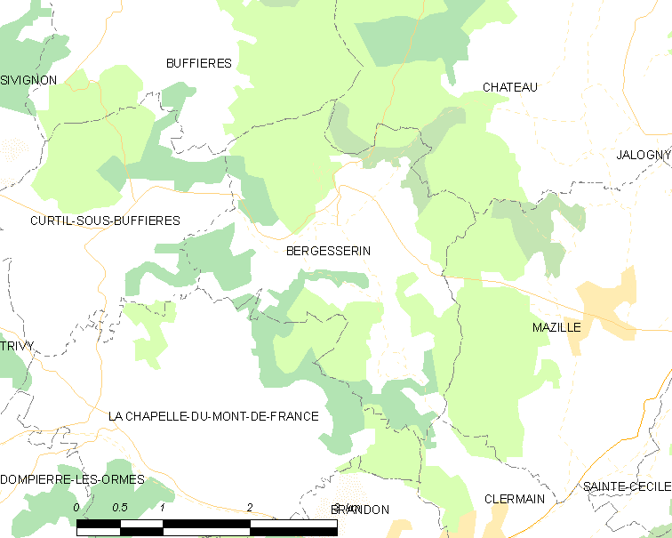 Map of French municipality